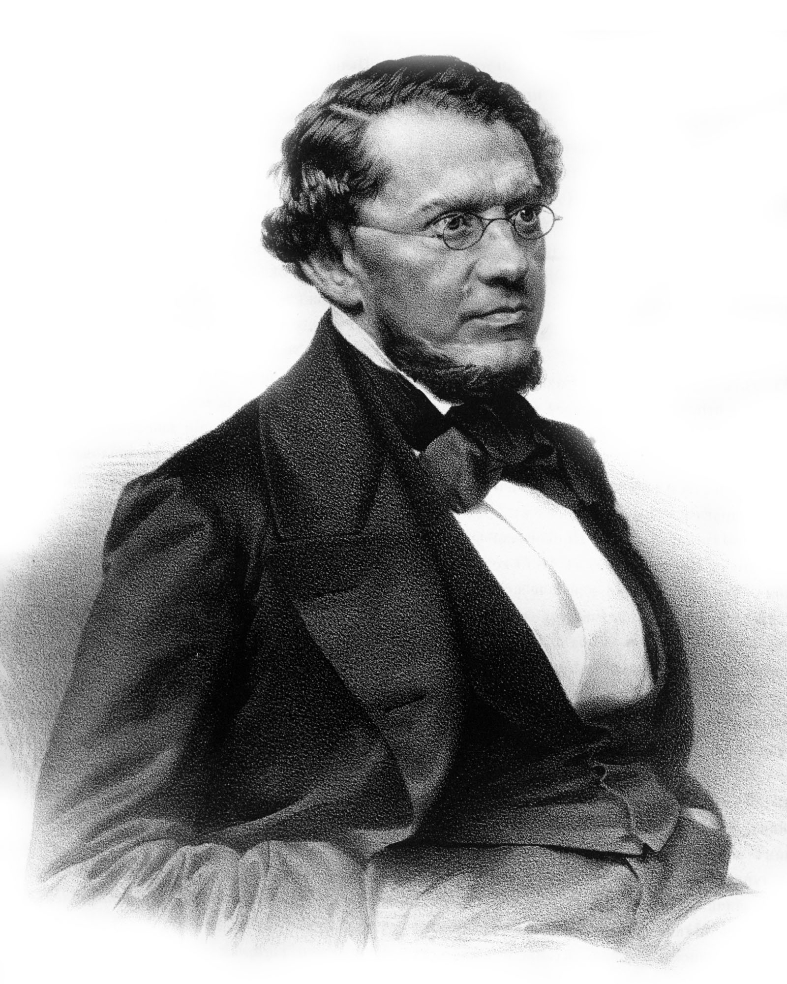 Konstantin Kavelin